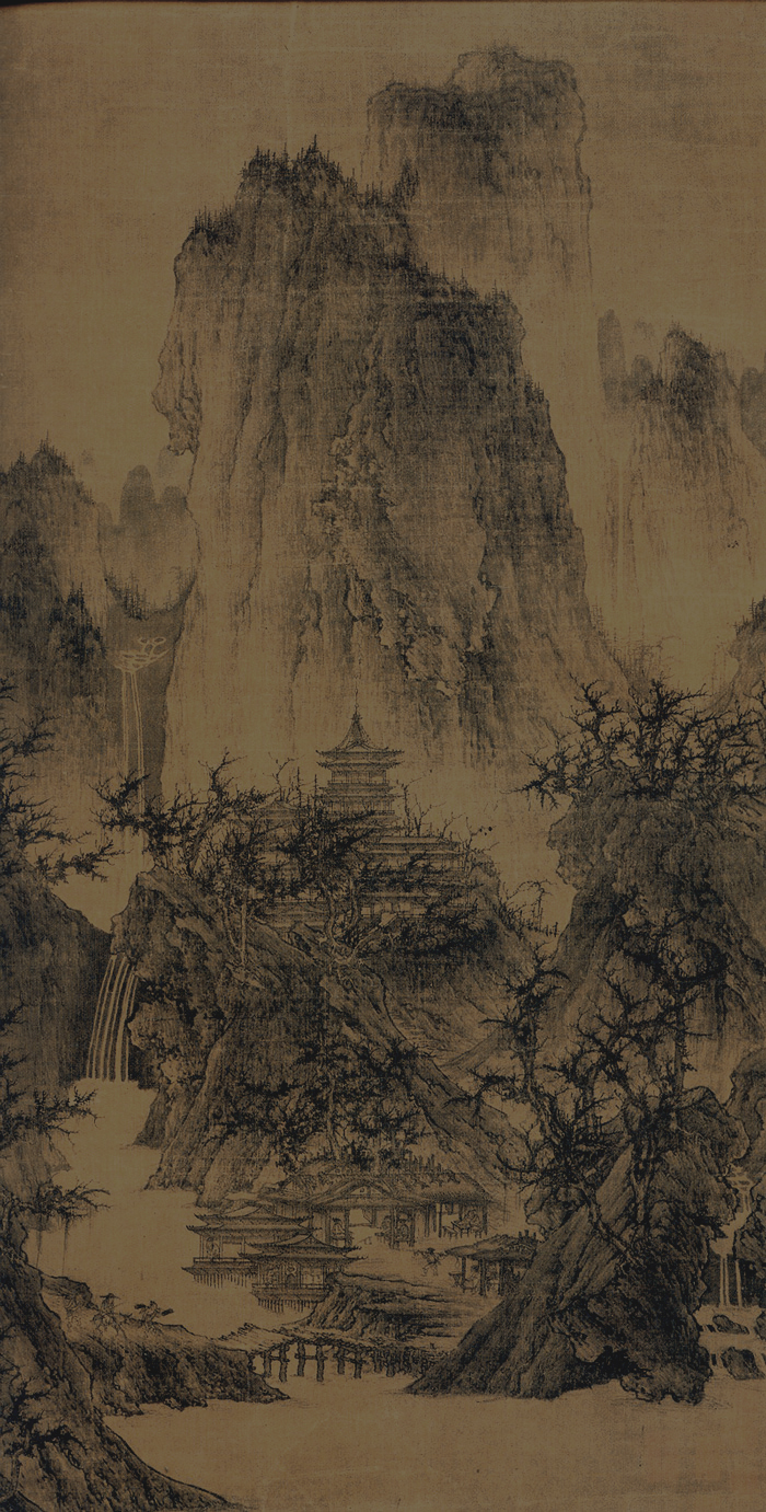 A Solitary Temple amid Clearing Peaks (晴峦萧寺). Hanging scroll, ink on silk. Size 111.4 x 56 cm (height x width). Painting is located in the Nelson-Atkins Museum of Art, Kansas City, Missouri. (See Barnhart, R. M. et al. (1997). Three thousand years of Chinese painting. New Haven, Yale University Press. ISBN 0-300-07013-6. Pages 100-101)